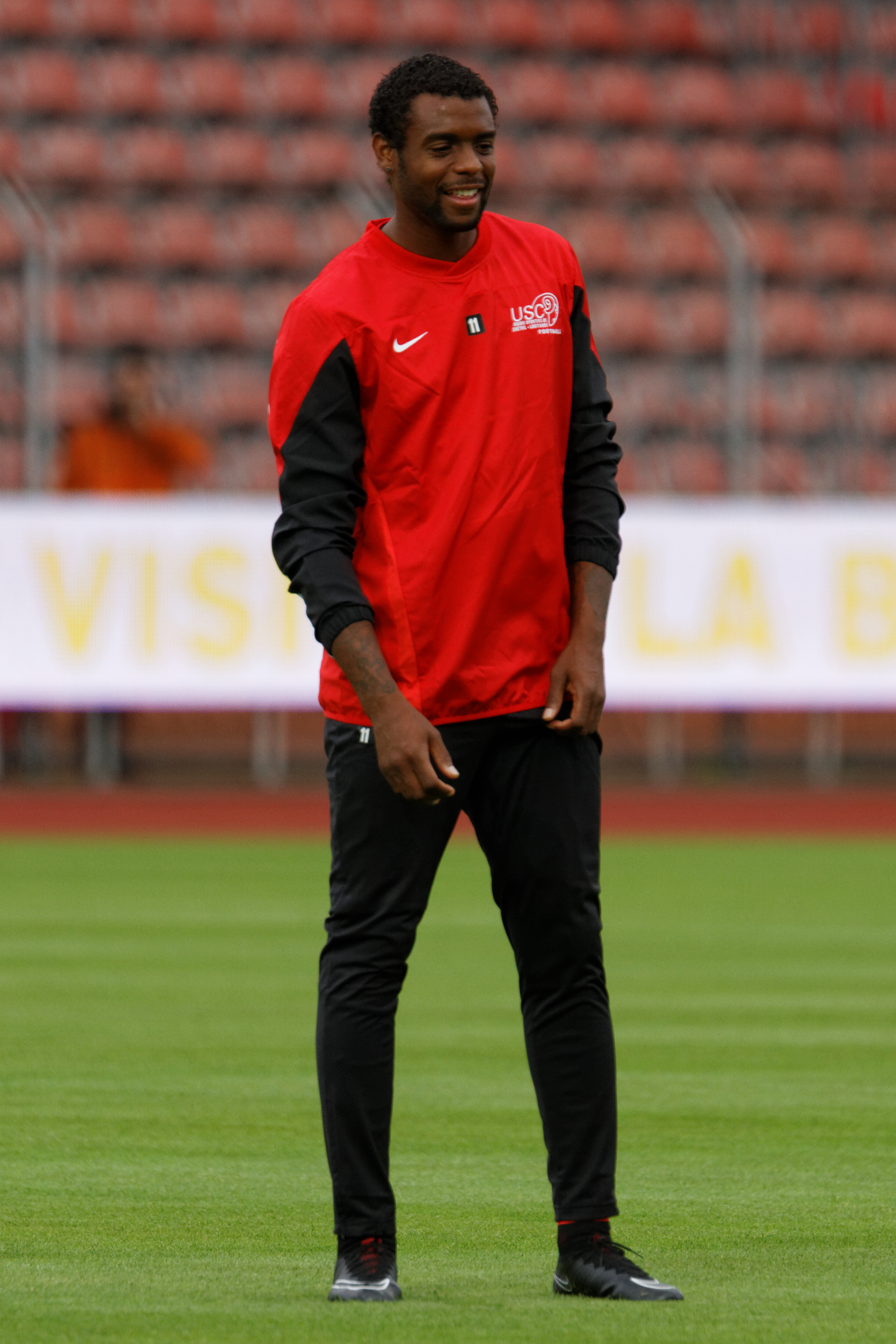 Créteil vs Châteauroux, 8th August 2014.